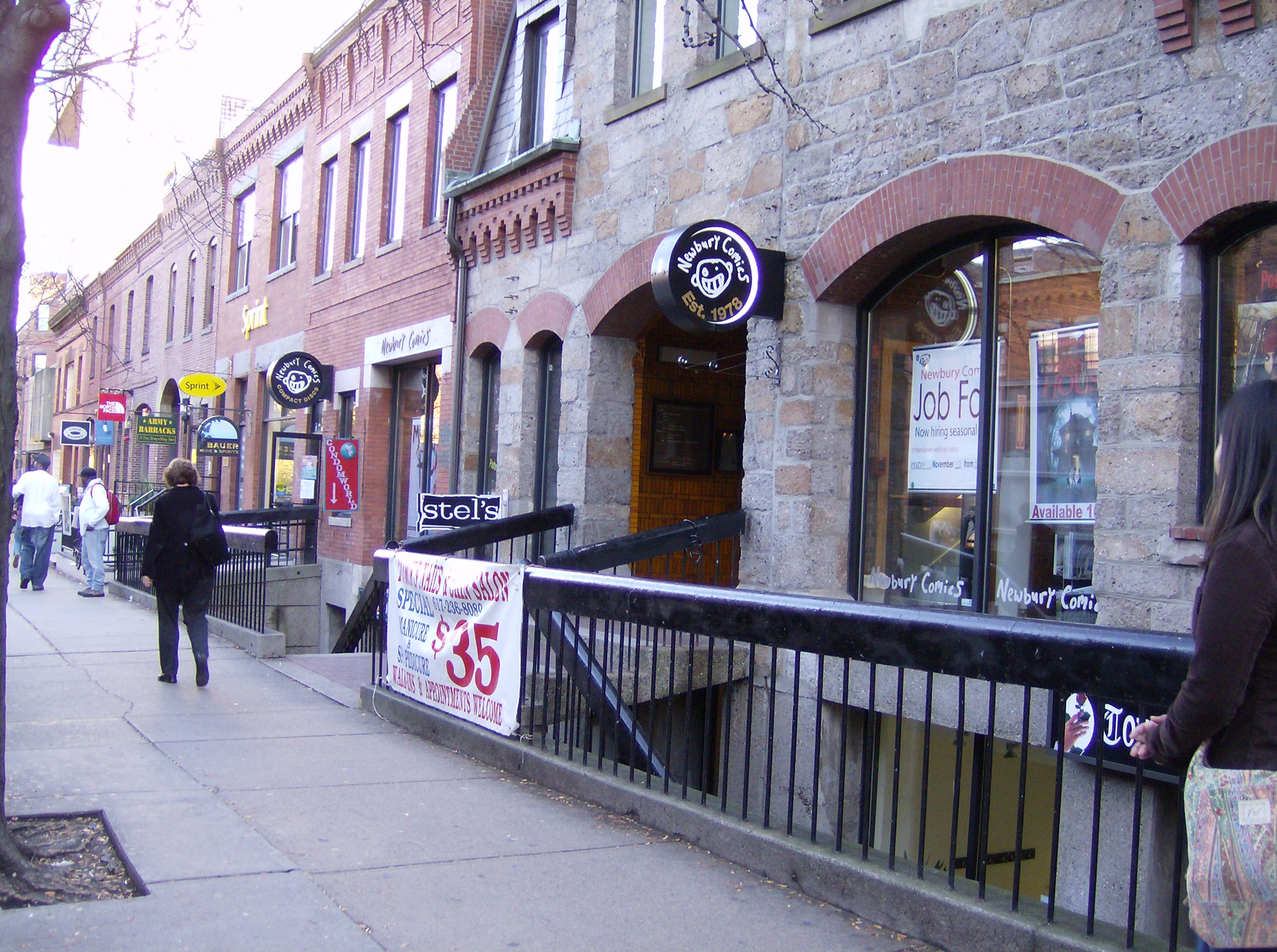 The Newbury Comics store location on Newbury Street in Boston, Massachusetts.